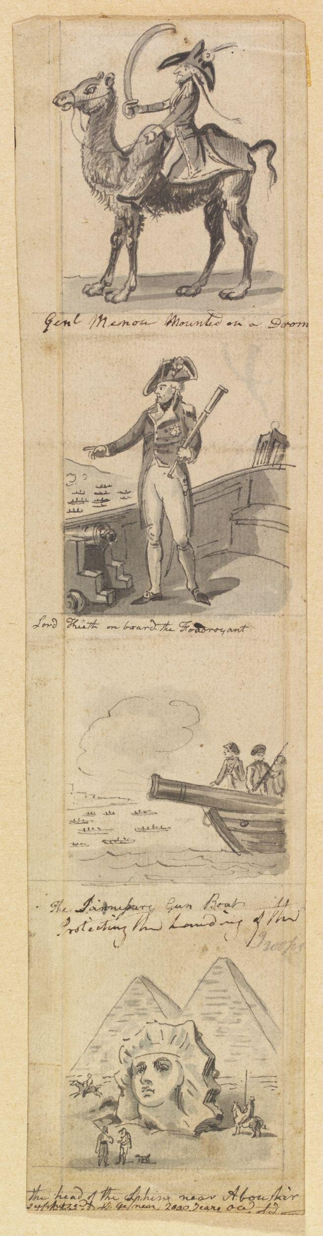 Pen and ink, with grey and blue washes, over pencil, on laid paper